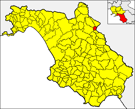 Locator map of the municipality of Romagnano al Monte (red) — within the Province of Salerno, Campania, southern Italy.